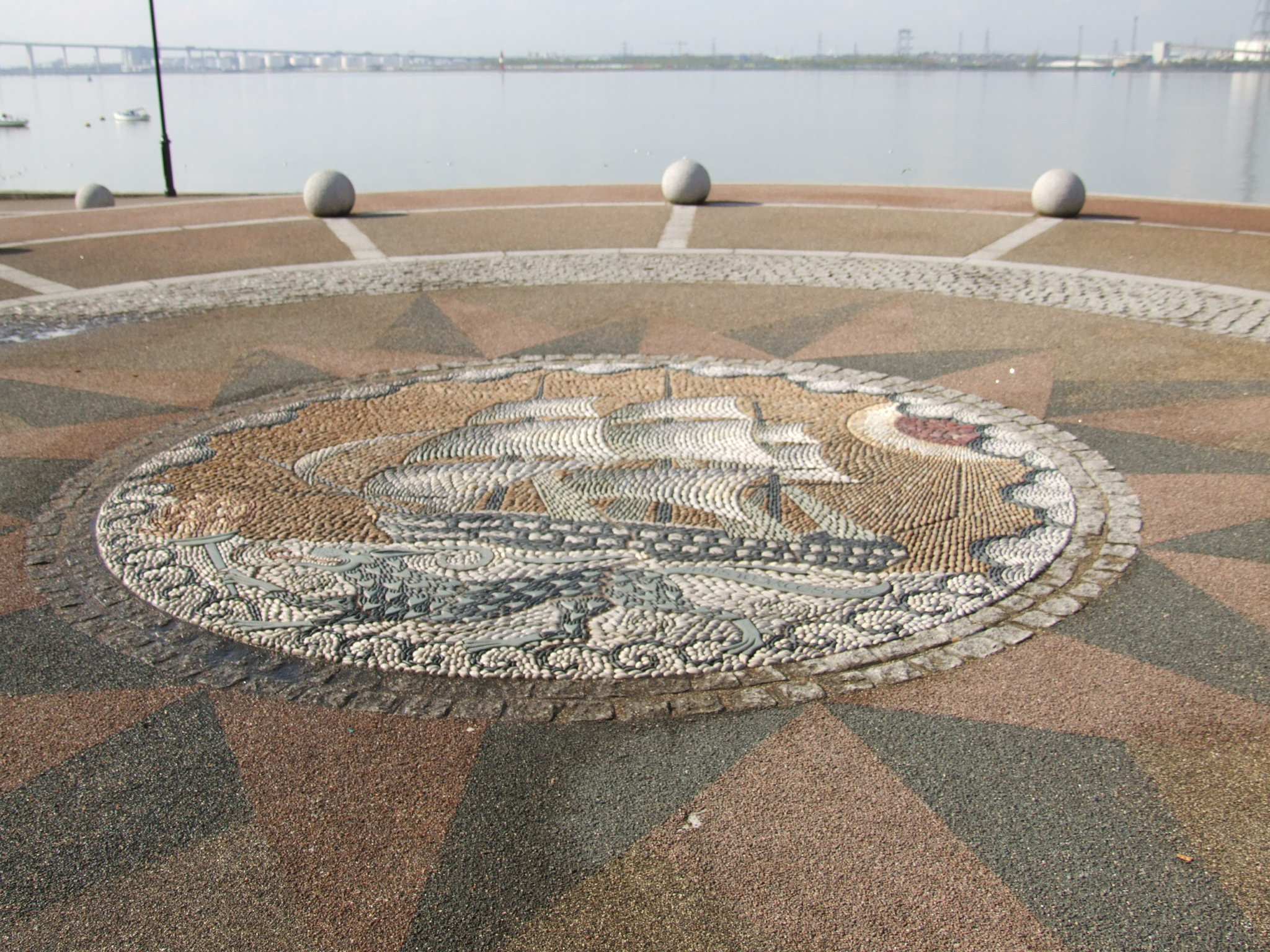 Greenhithe, Kent in April 2008. Memorial to HMSWorcester and the Incorporated Thames Nautical Training College, on the shore of the Thames Estuary, at Ingress Abbey. The Worcester was moored here from 1871 until 1978, and the Cutty Sark was moored here from 1938 to 1954.